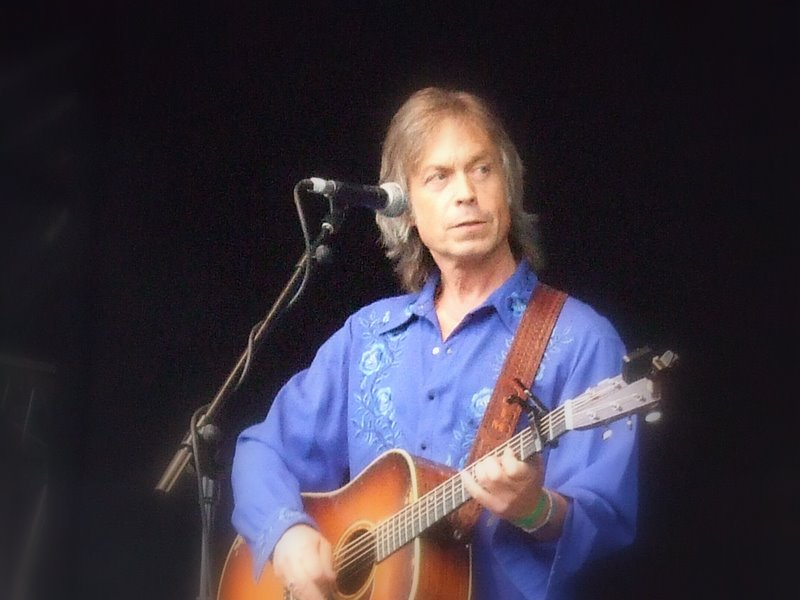 Jim Lauderdale